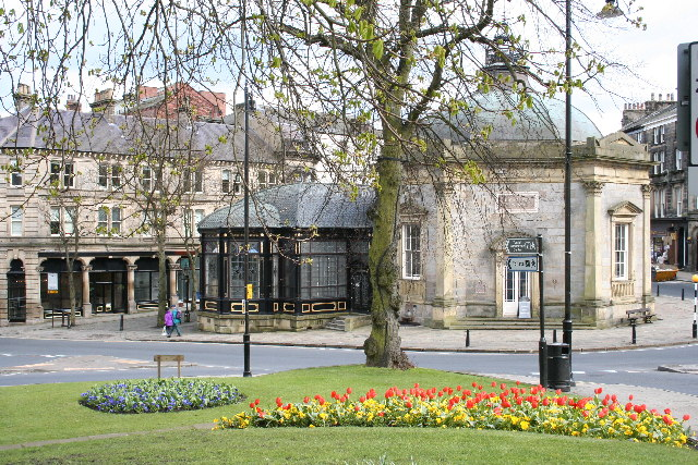 Pump Room Harrogate. The splendour of spa town Harrogate